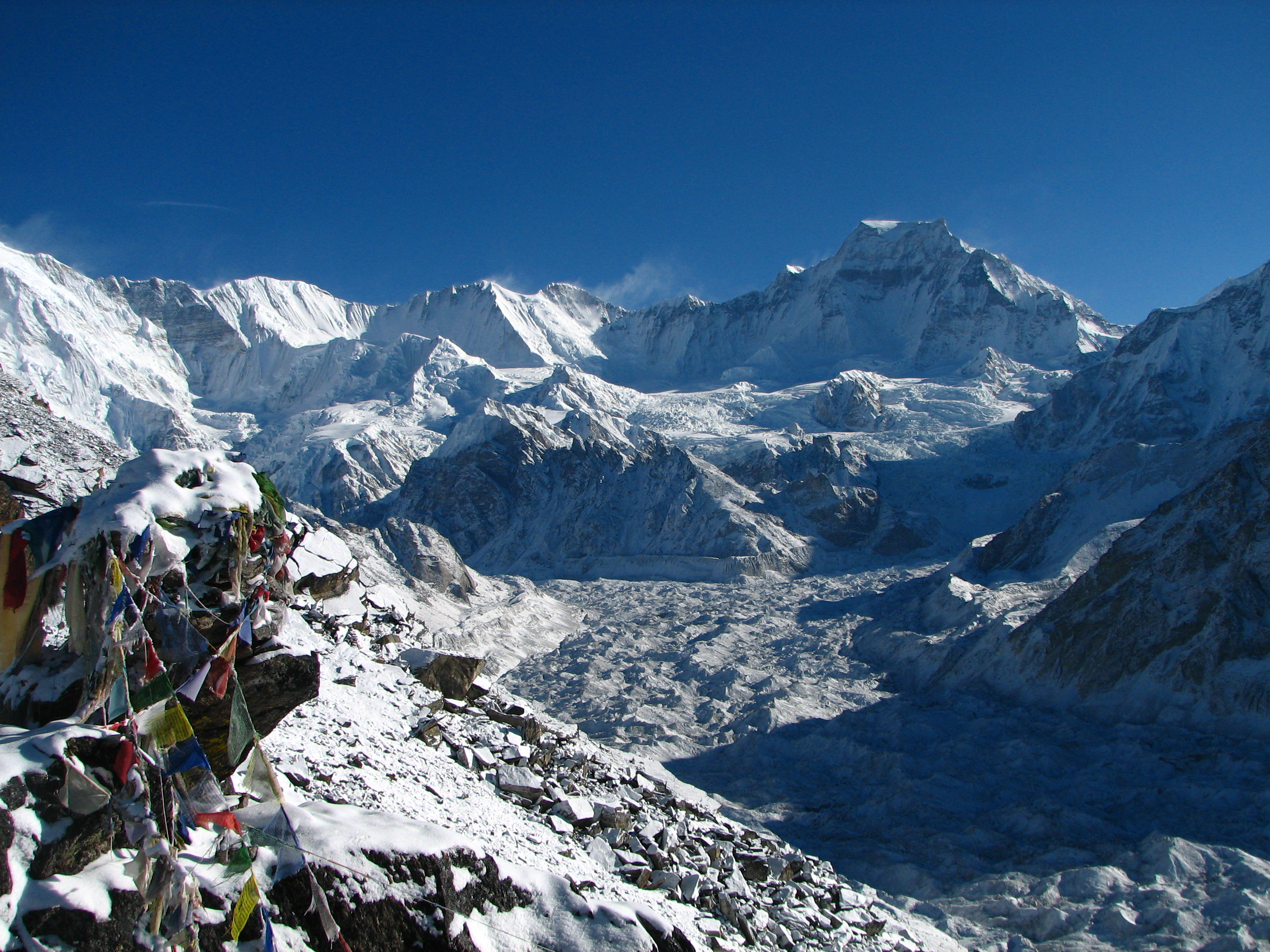 Nepal - Sagamartha Trek - 120 _ Ngozumpa Glaciear headwall between Gyachung Kang (7952 m) and Cho Oyu (outside the picture on the right)